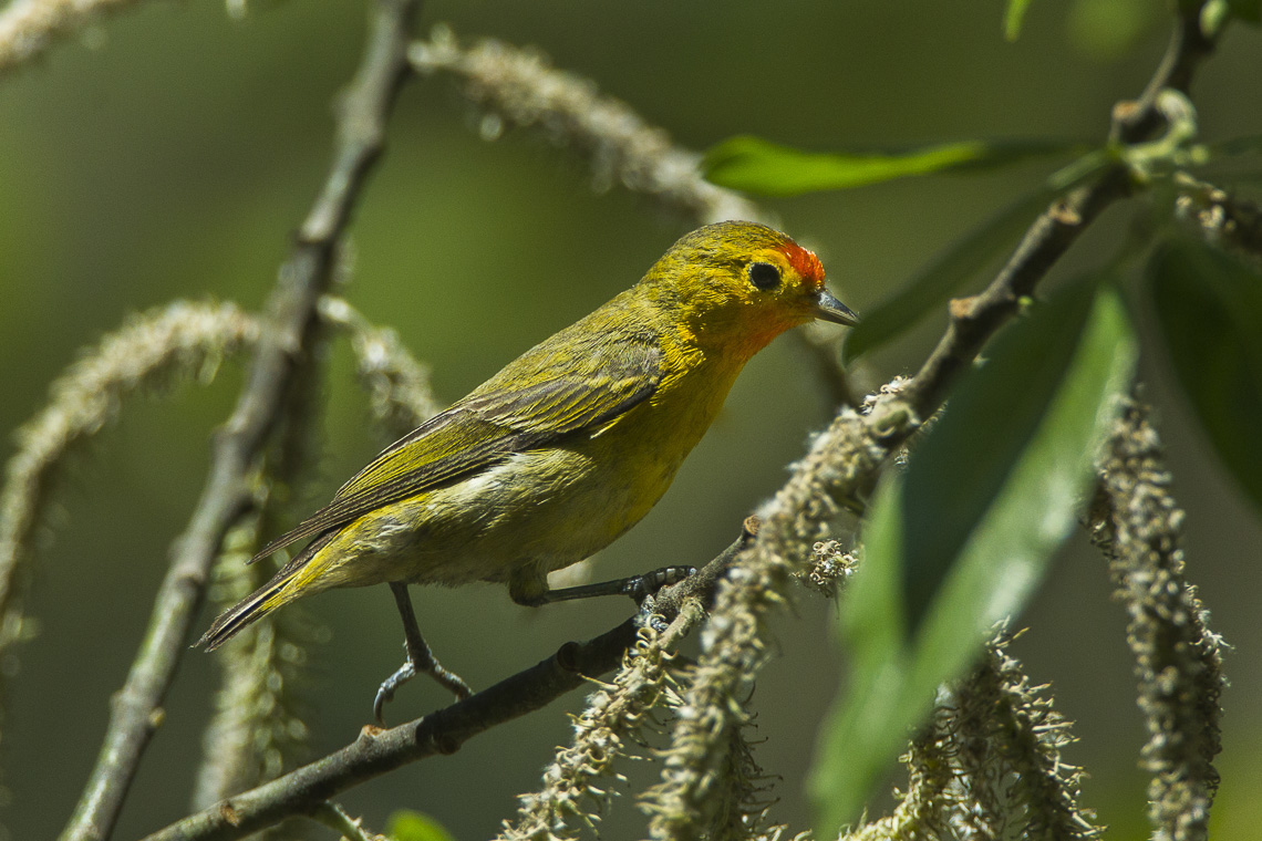 Fire-capped Tit Cephalopyrus flammiceps, Bhutan